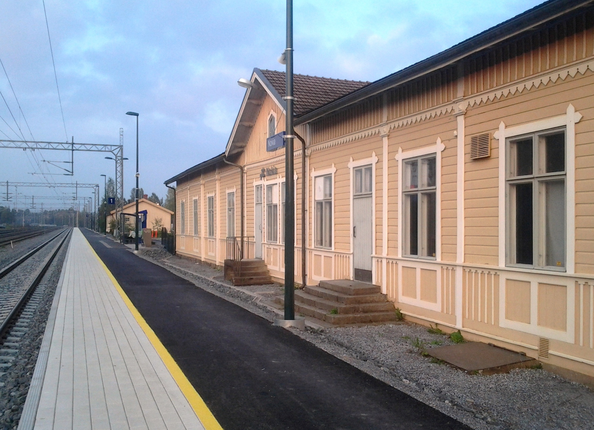 Nokia railway station.